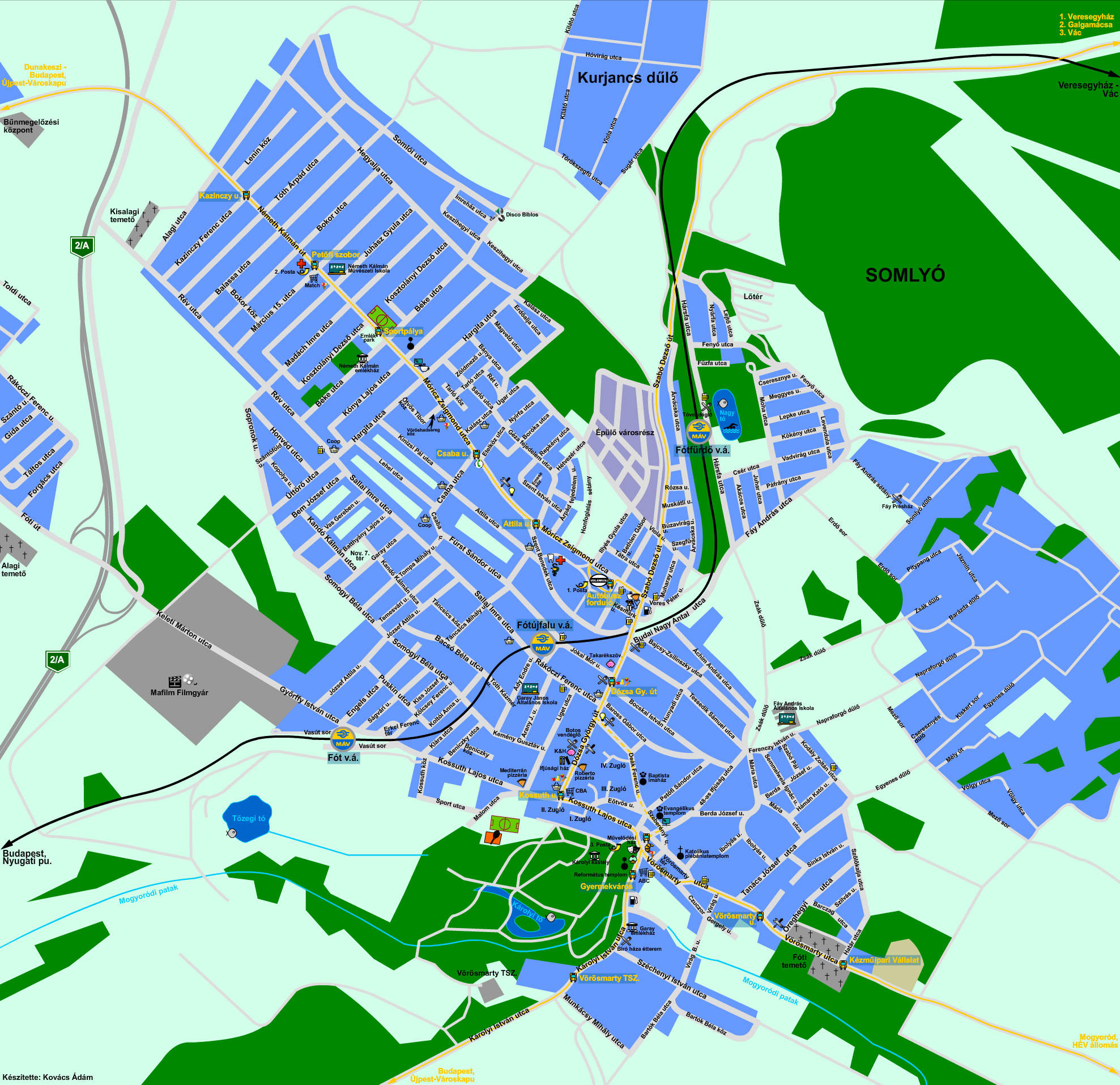 Map of Fót